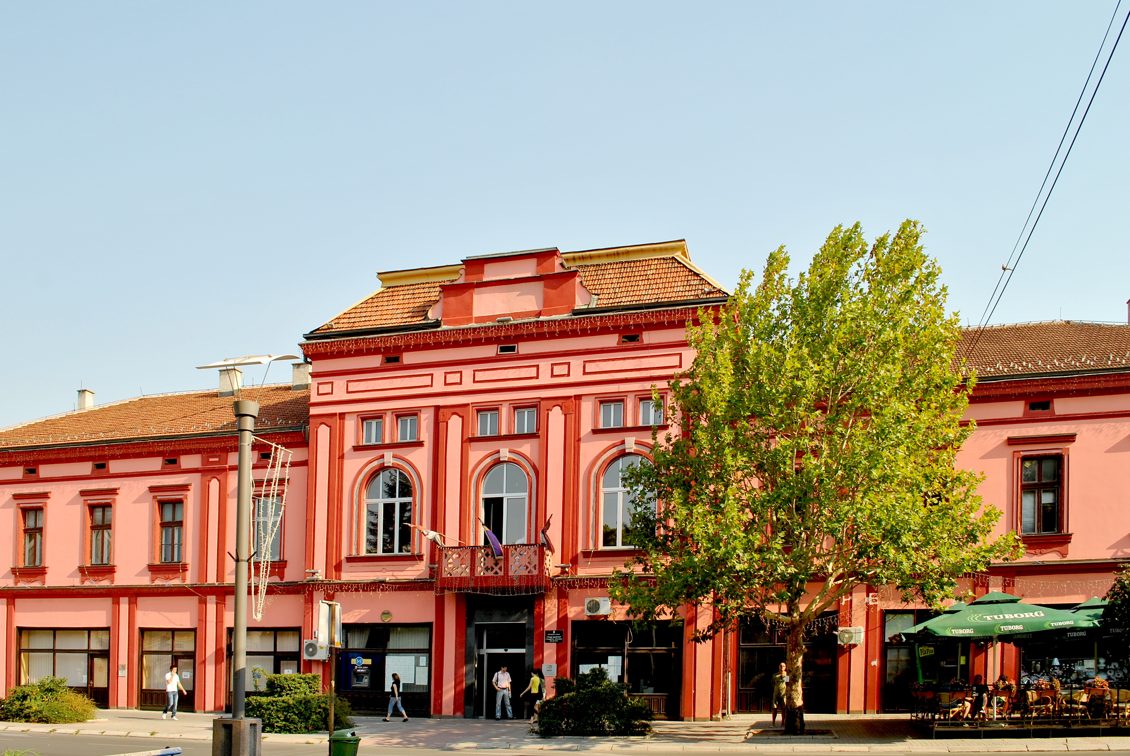 СК 996